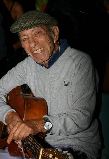 Giampaolo Loddo